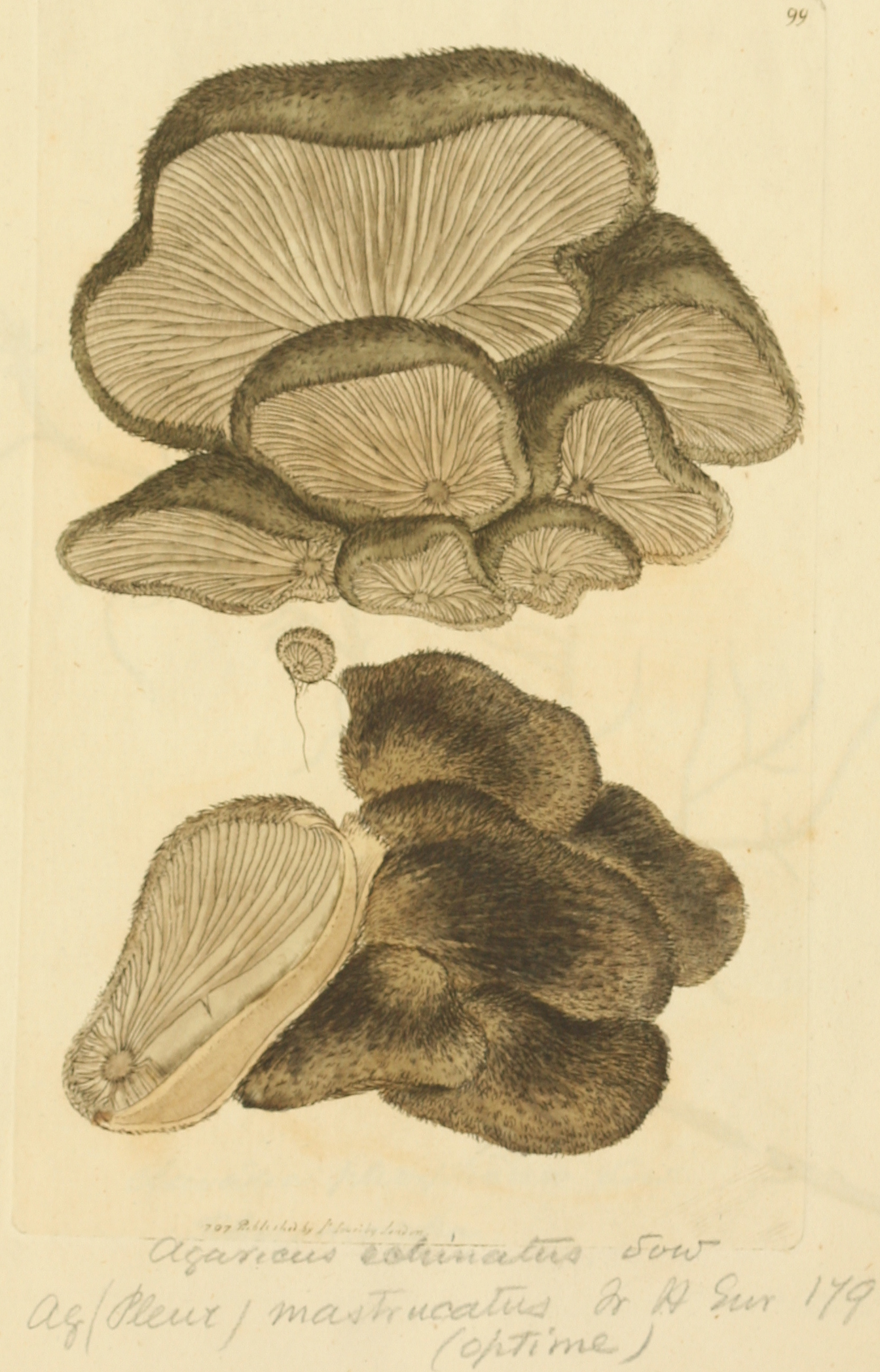 This is a plate from James Sowerby's Coloured Figures of English Fungi or Mushrooms.